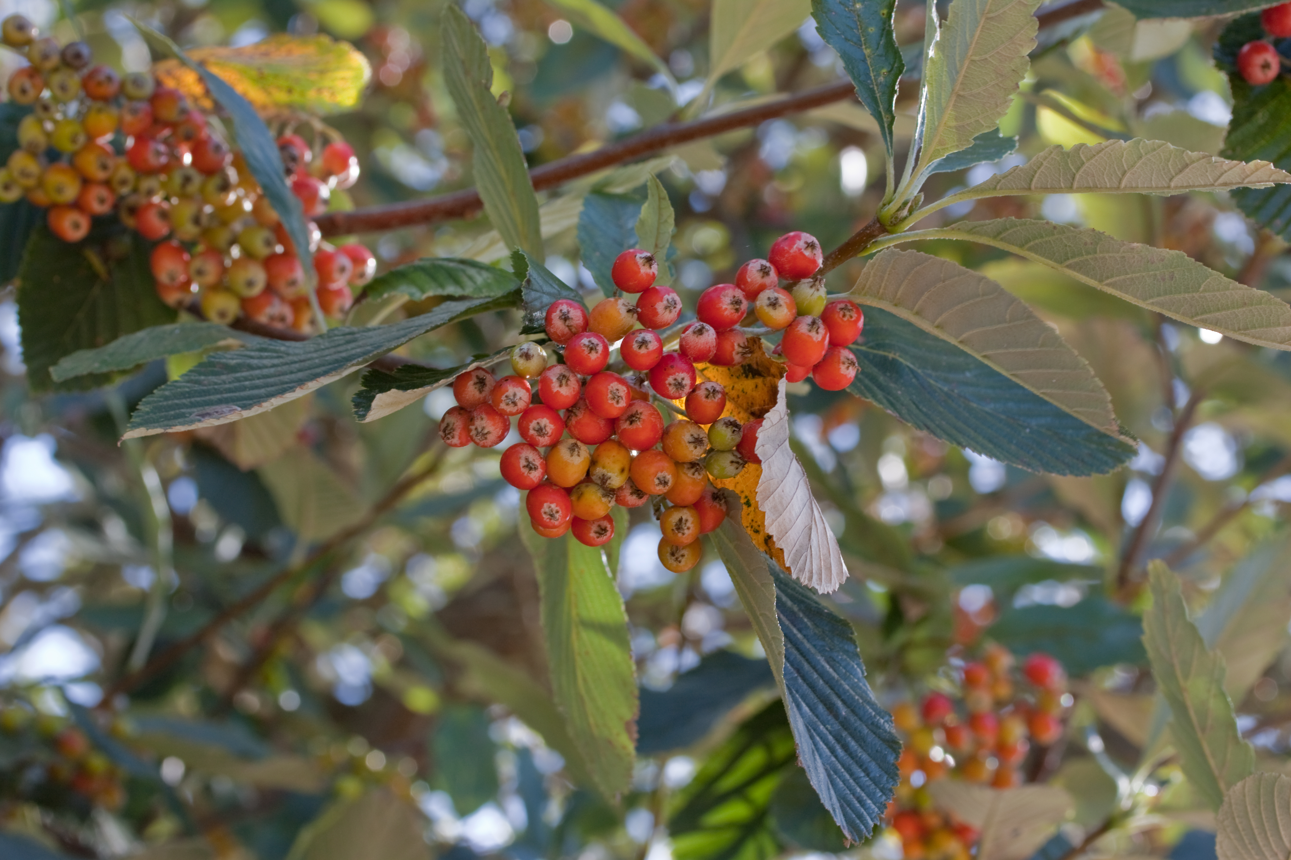 Berries and leaves of the tree Sorbus aria. Photographed in Vivary Park, Taunton, Somerset, UK.